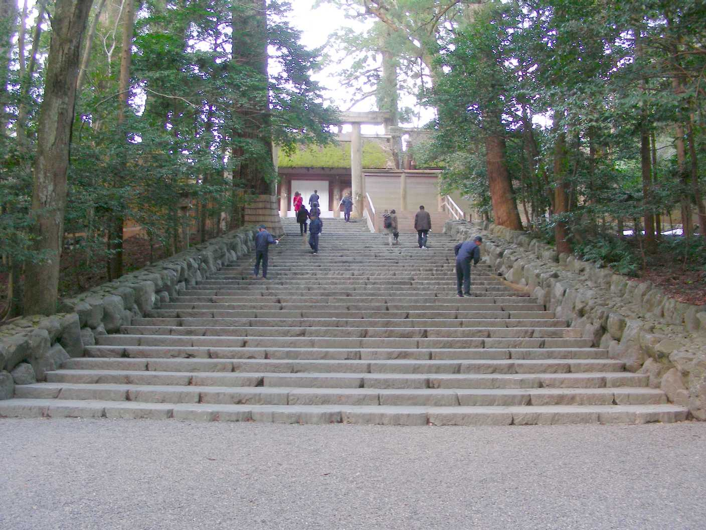 Kōtai-jingū (Naiku) at Ise city, Mie prefecture, Japan.